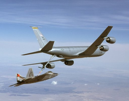 A KC-135R Stratotanker from the 22nd Air Refueling Wing at McConnell AFB, Kansas refuels an F-22A Raptor from Edwards AFB, CaliforniaCategory:Images of Kansas